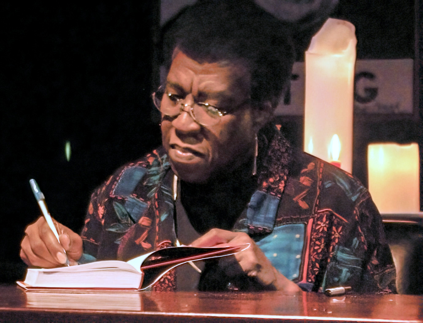 Octavia Estelle Butler signing a copy of Fledgling after speaking and answering questions from the audience. The event was part of a promotional tour for the book.